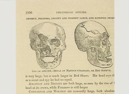 1873 Book